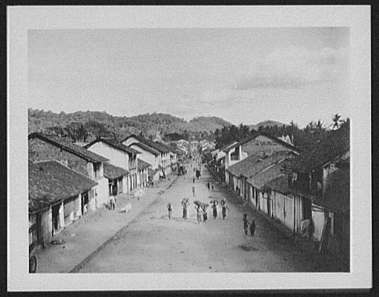 Title: Kandy - street scene Physical description: 1 photographic print : gelatin silver ; 8 x 10 in. or smaller. Notes: Published as halftone in Harper's Weekly, 1895.; Gift; Colorado Historical Society; 1949.; Forms part of: Jackson, William Henry, 1843-1943. World's Transportation Commission photograph collection (Library of Congress).; Photographic print made by LC from Jackson's vintage film negative.